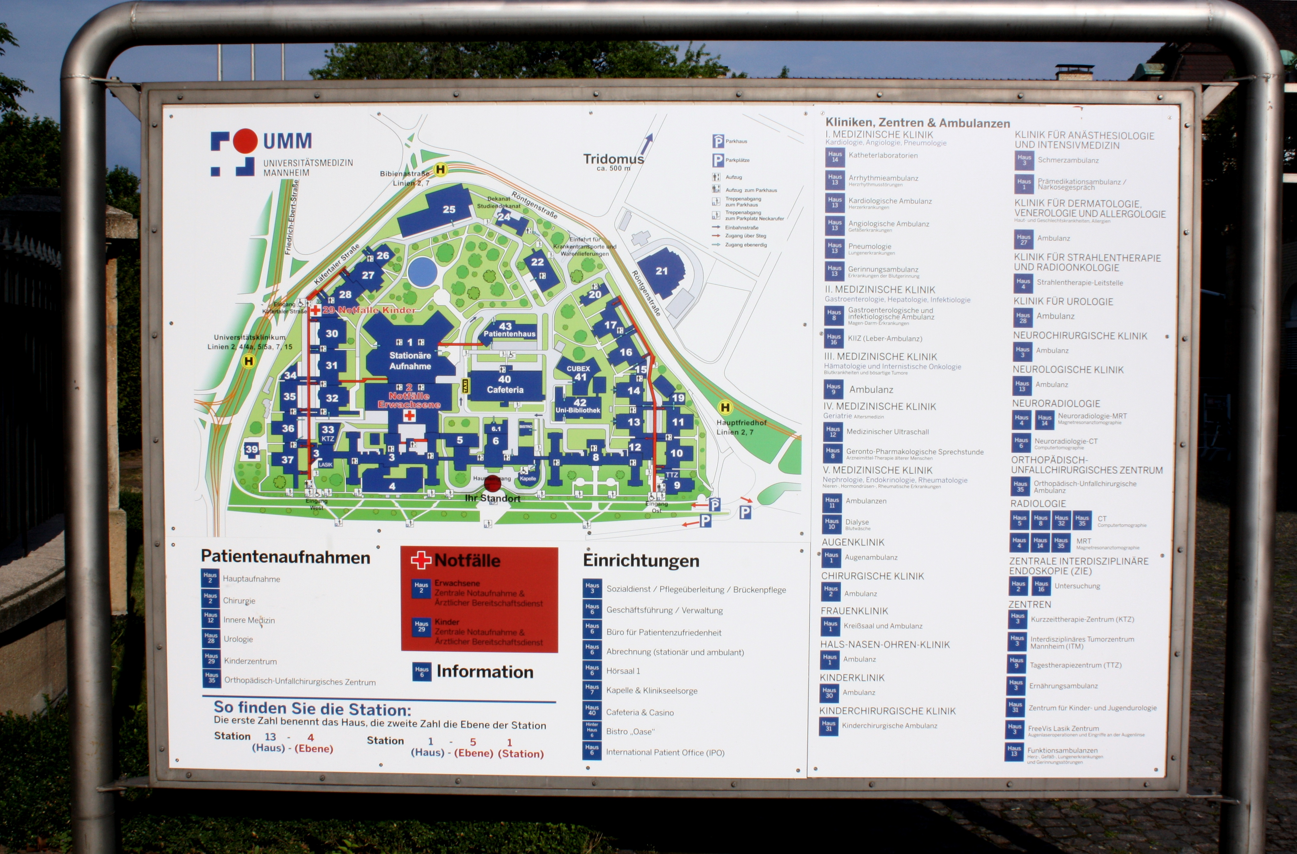 Location Map of the university medical centre Mannheim